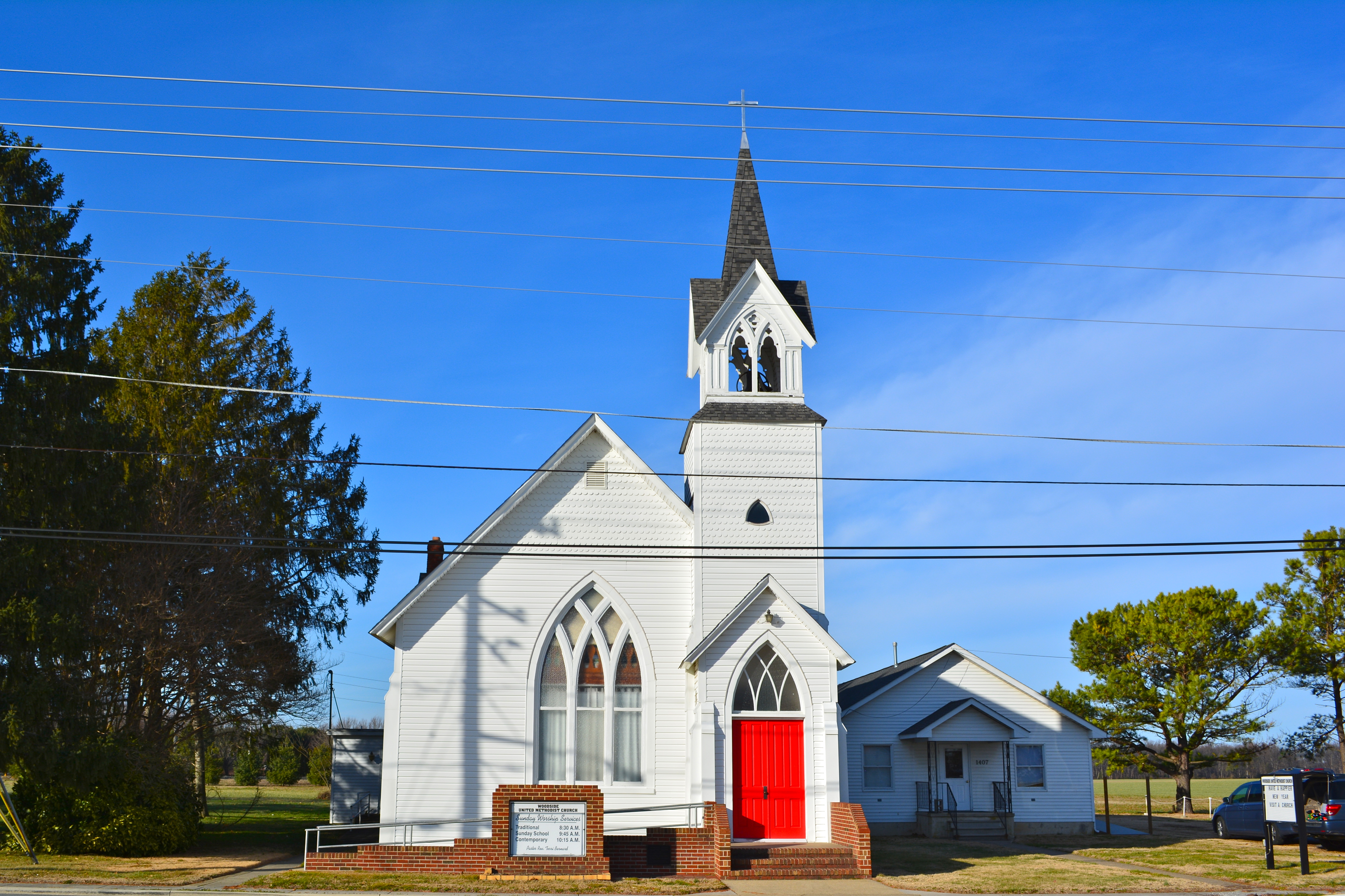 Woodside Methodist Episcopal Church listed on the NRHP on February 16, 1996 , on Main St., North Murderkill Hundred in Woodside, Kent County, Delaware.